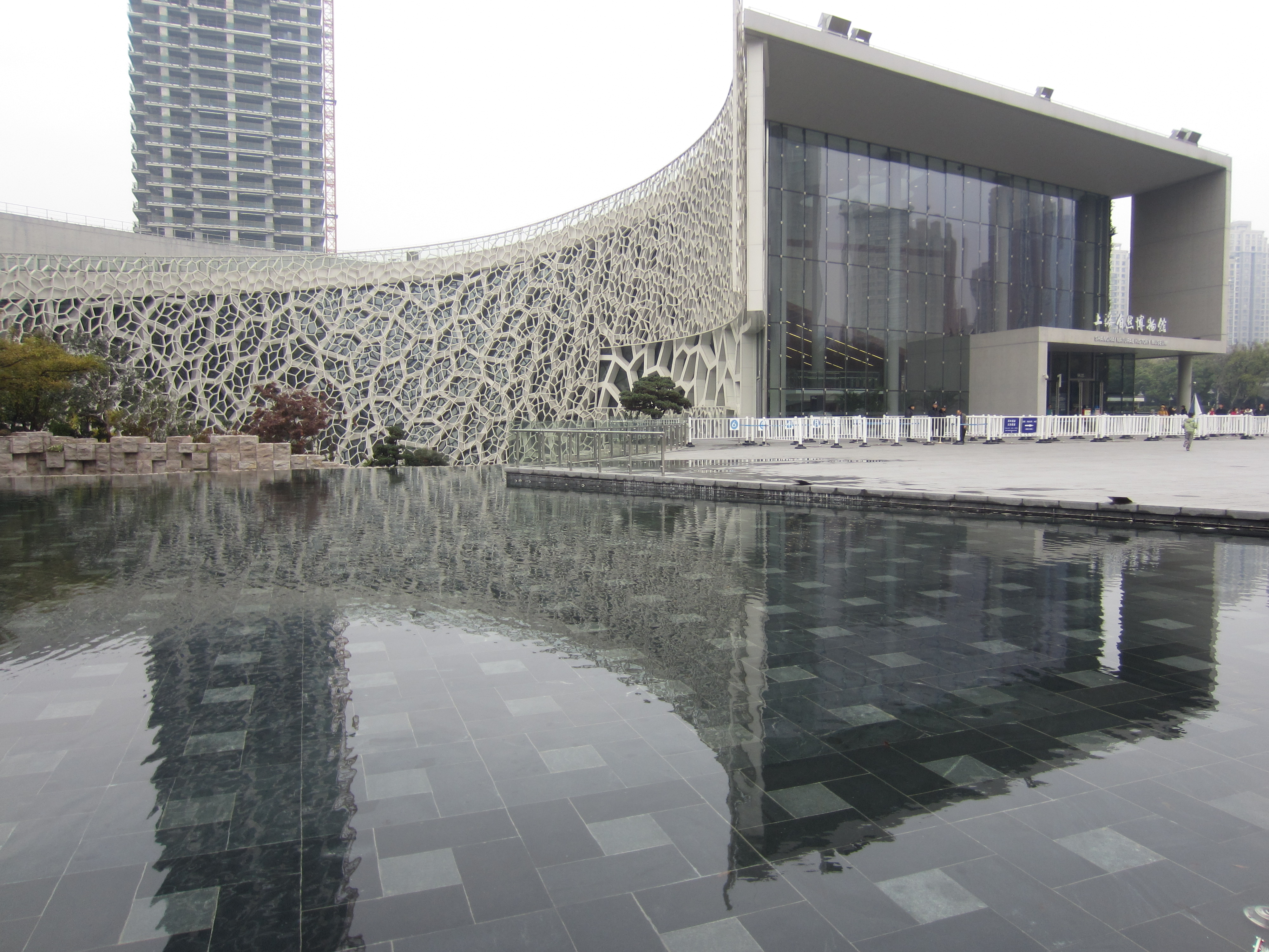 Shanghai, China (December 5, 2015)